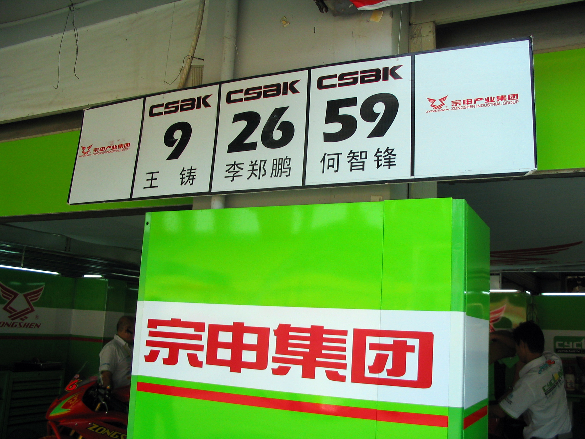 Zongshen riders' names and numbers outside the pit garage during China Superbike Championship in Zhuhai.